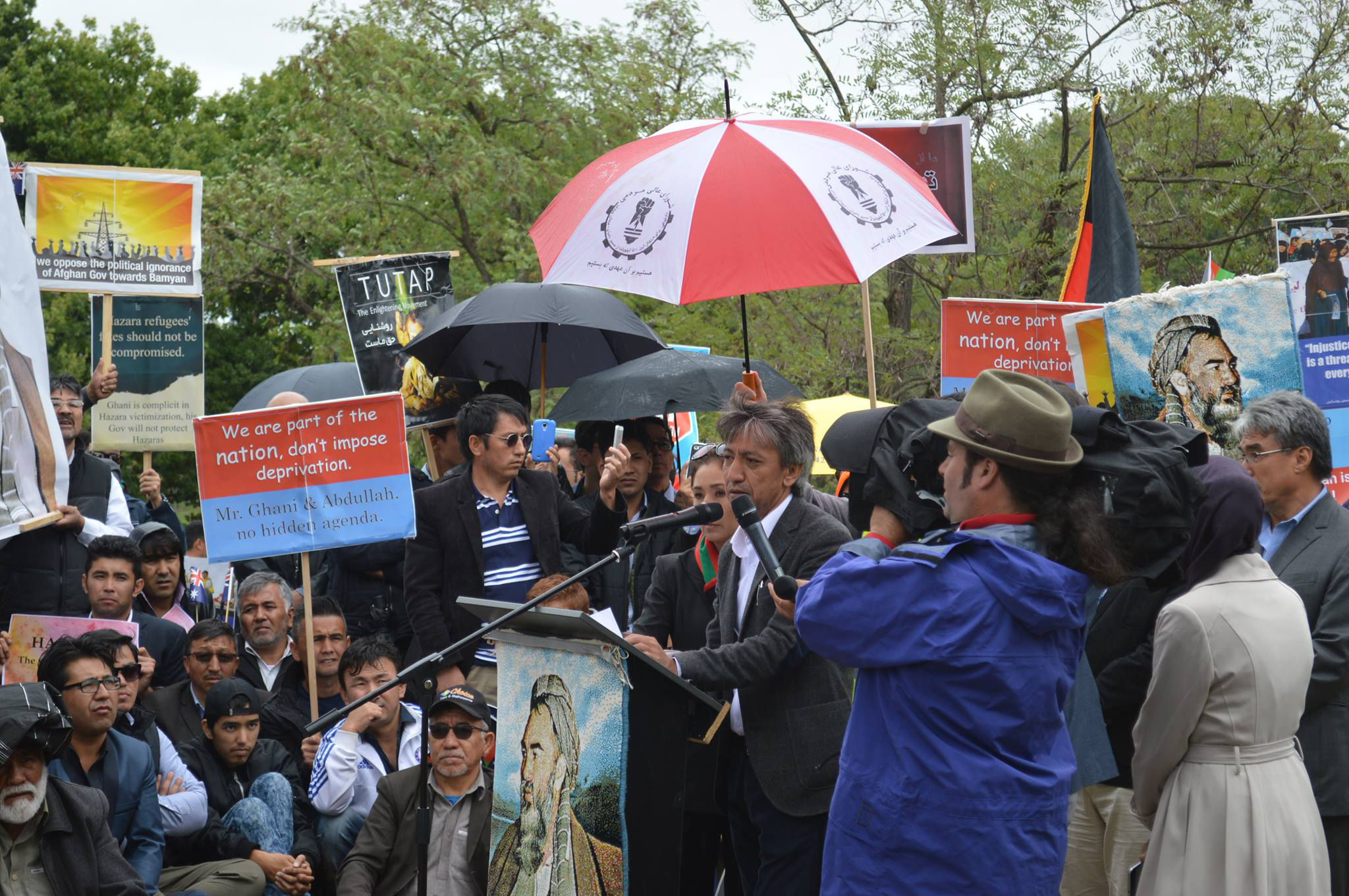 Daoud Naji among protestors Canberra Australia.